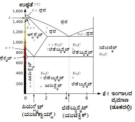 Iron-Carbon phase diagram in kannada ಕನ್ನಡ: ವಿವಿಧ ರೀತಿಯ ಕಳೆಗಳನ್ನು ರೂಪಿಸಲು ಅಗತ್ಯವಿರುವ ಸ್ಥಿತಿಗಳನ್ನು ತೋರಿಸುತ್ತಿರುವ ಇಂಗಾಲ-ಉಕ್ಕು ಕಳೆ ಚಿತ್ರ.